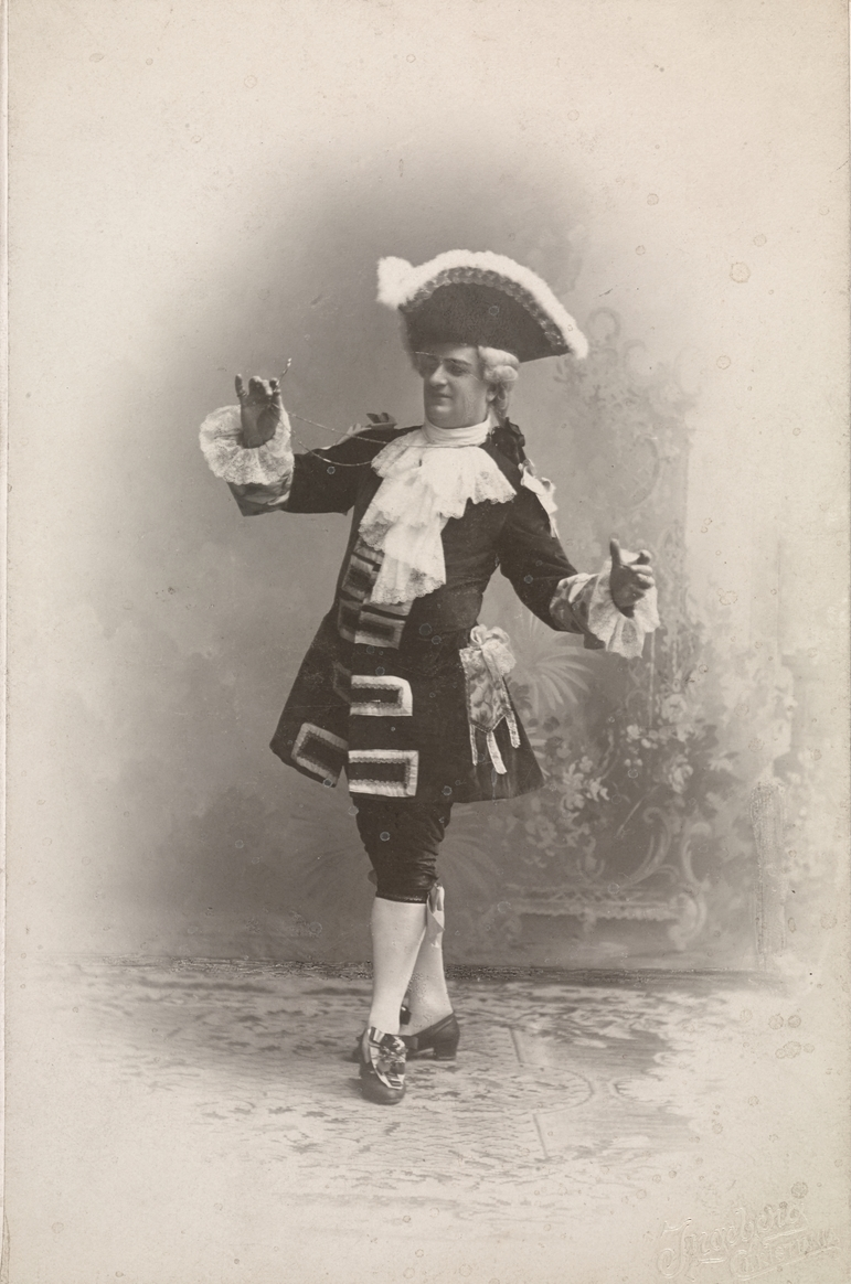 Depicted person: Berent Schanche – Norwegian actor